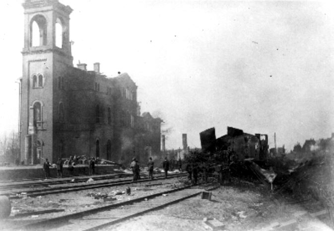 1918 Finnish Civil War: Hämeenlinna railway station destroyed as a German artillery shell hit the Red Guard ammunition wagon.